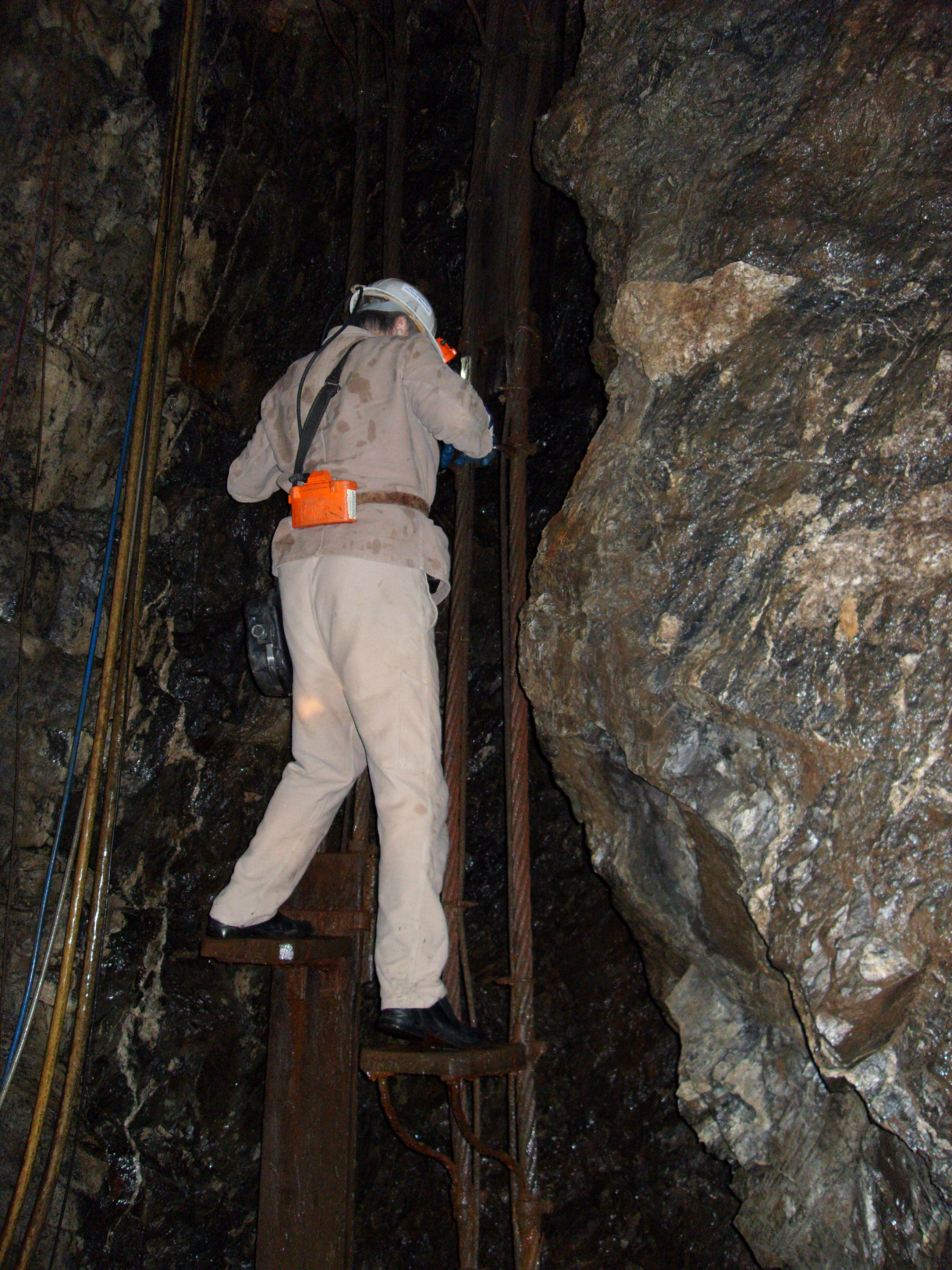 Miner on the man engine leaving the Samson Pit in the Harz Mountains of Germany